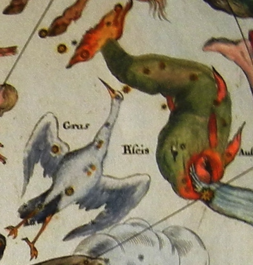 The constellations Grus and Piscis Austrinus as depicted in the Johann Doppelmayr's chart of the Southern Celestial Hemisphere, Plate 19 in his 1742 publication Atlas Coelestis.